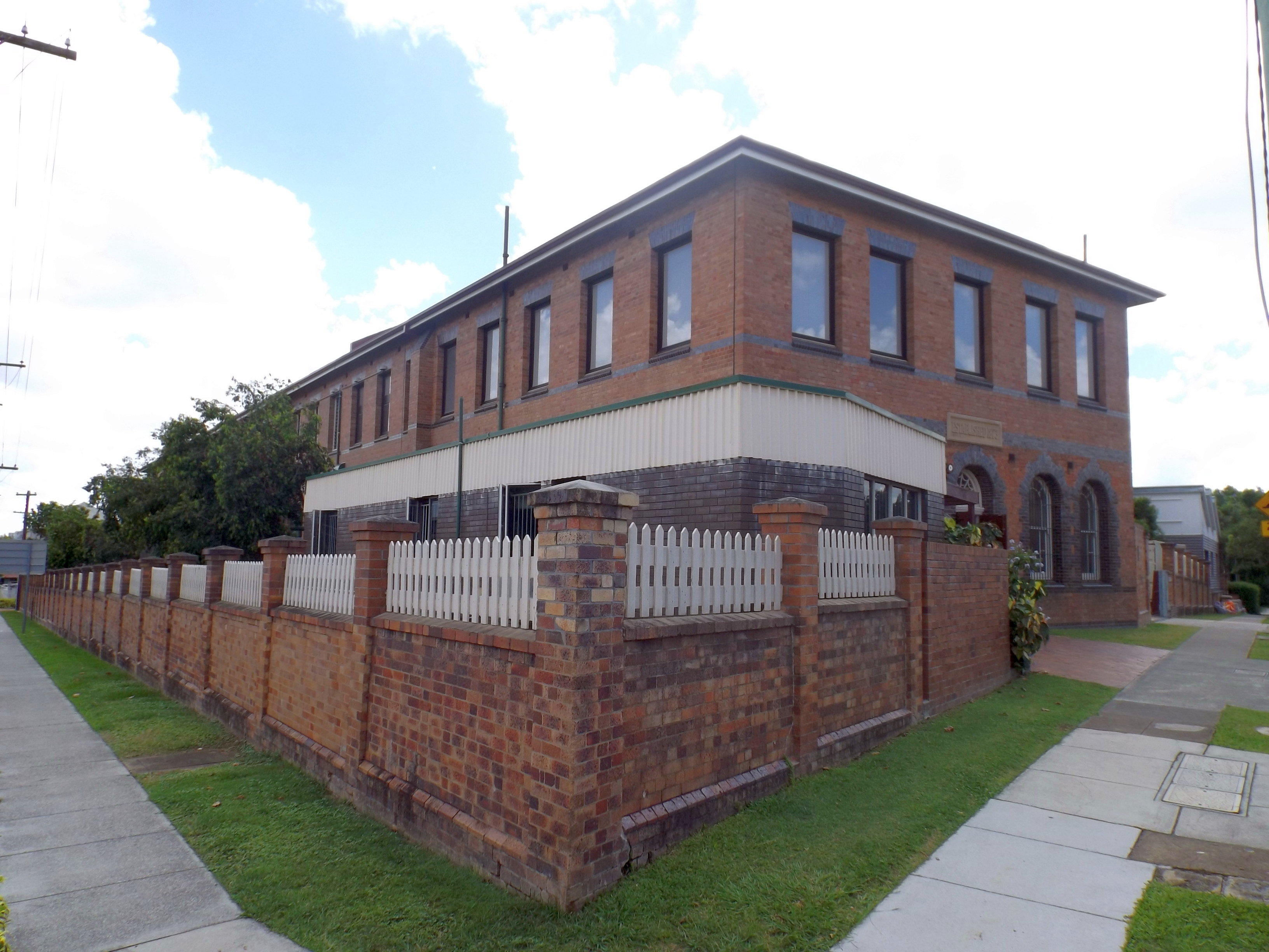 Photo of the Thomas Dixon Centre from the corner of Montague Road (left of image) and Drake Street in West End, Brisbane, Queensland, Australia.